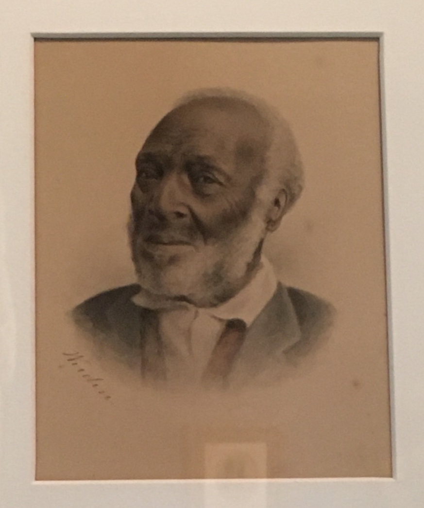 This is a watercolor portrait of Saint Bartley Harris painted by Huntsville artist Maria Howard Weeden in the late nineteenth century. It currently hangs in Huntsville's Weeden House Museum.